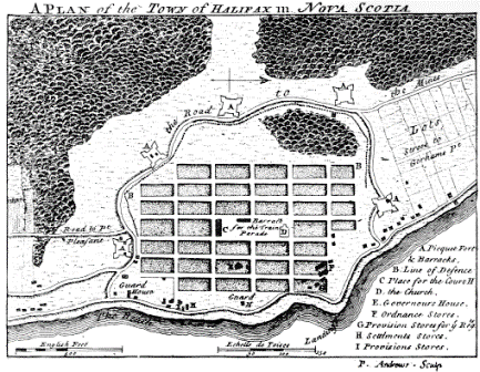 A Plan of the Town of Halifax in Nova Scotia. The town was laid out by Moses Harris, a British settler, in 1749. This map was published in 1763 and closely resembles Harris' map.